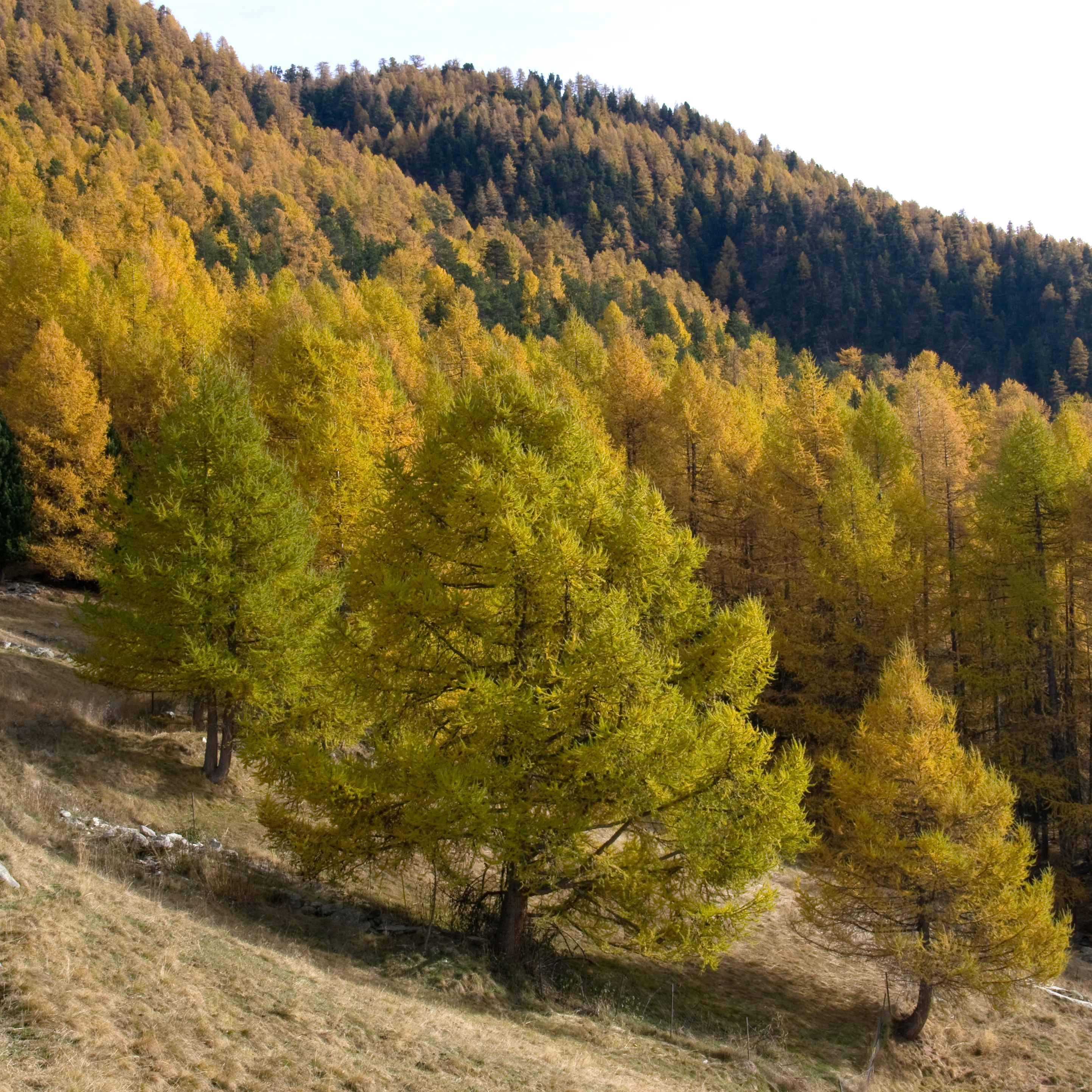 European Larch, Saastal, Visp, Valais, Switzerland